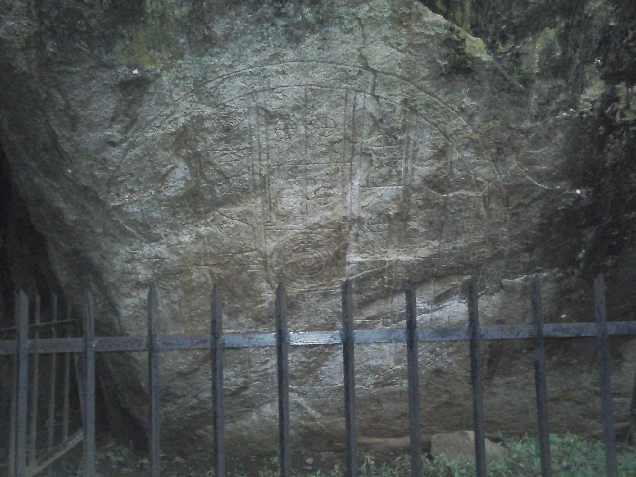 Stargate mark at Ranmasu Uyana